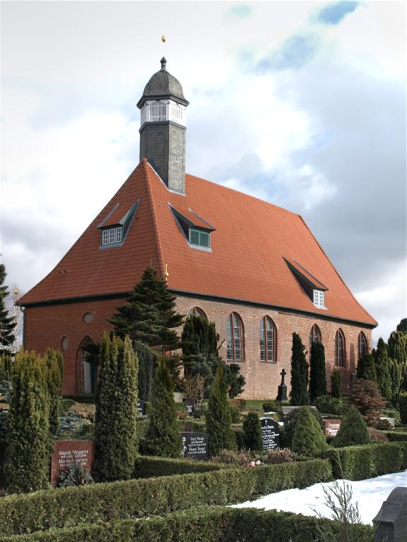 Neuendorf, Schleswig-Holstein (Germany), Trinitatis-Church, photo 2010